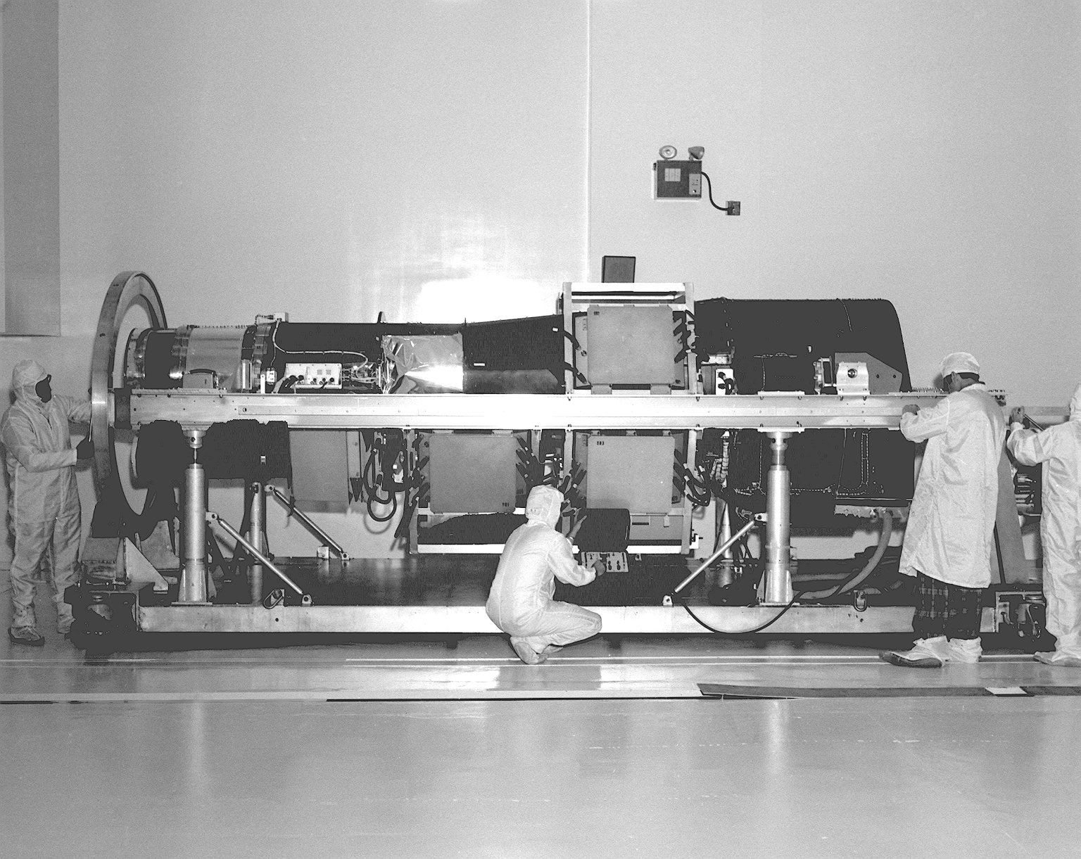 This photograph is of the High Energy Astronomy Observatory (HEAO)-2 telescope being checked by engineers in the X-Ray Calibration Facility at the Marshall Space Flight Center (MSFC). The MSFC was heavily engaged in the technical and scientific aspects, testing and calibration, of the HEAO-2 telescope. The HEAO-2 was the first imaging and largest x-ray telescope built to date. The X-Ray Calibration Facility was built in 1976 for testing MSFC's HEAO-2. The facility is the world's largest, most advanced laboratory for simulating x-ray emissions from distant celestial objects. It produced a space-like environment in which components related to x-ray telescope imaging are tested and the quality of their performance in space is predicted. The original facility contained a 1,000-foot long by 3-foot diameter vacuum tube (for the x-ray path) cornecting an x-ray generator and an instrument test chamber. Recently, the facility was upgraded to evaluate the optical elements of NASA's Hubble Space Telescope, Chandra X-Ray Observatory and Compton Gamma-Ray Observatory.